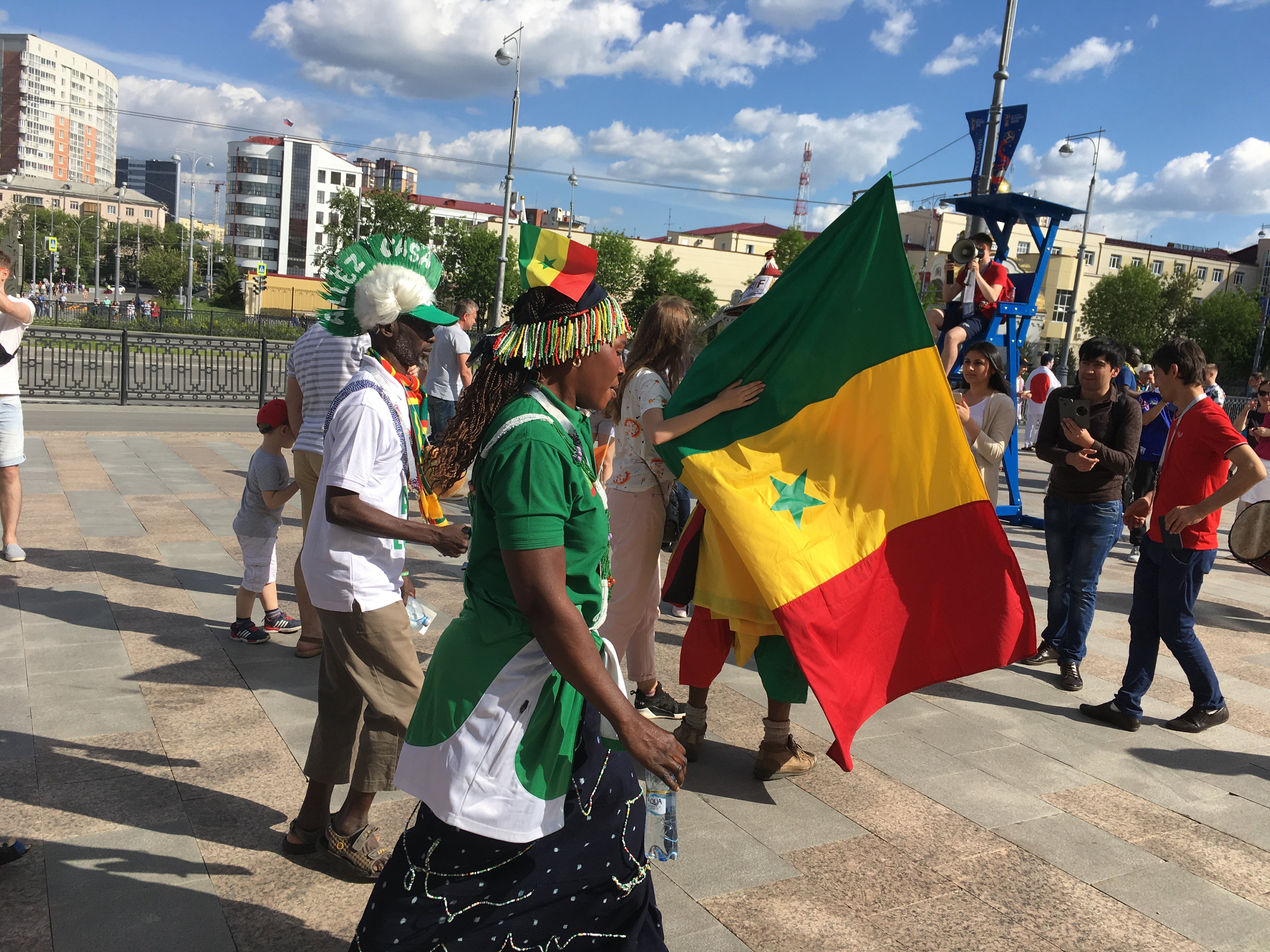 Japan-Senegal in Yekaterinburg (FIFA World Cup 2018)